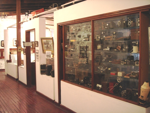 Inside the Photography Museum, Port Louis, Mauritius.